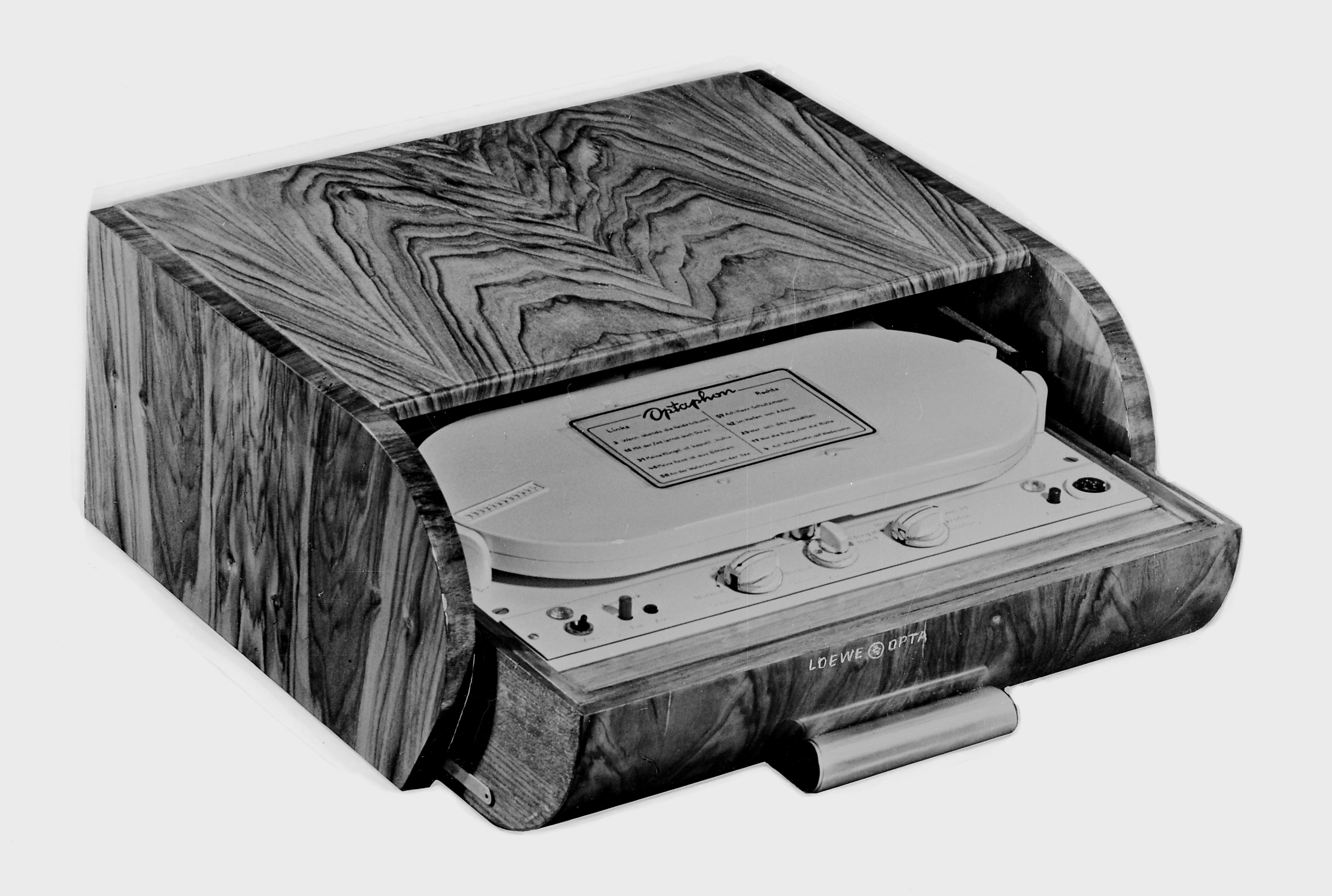 Magnetic tape recorder Loewe Optaphon, 1950 Further reading Loewe Optaphon 51WA. Tonbandmuseum (magnetbandmuseum.de).